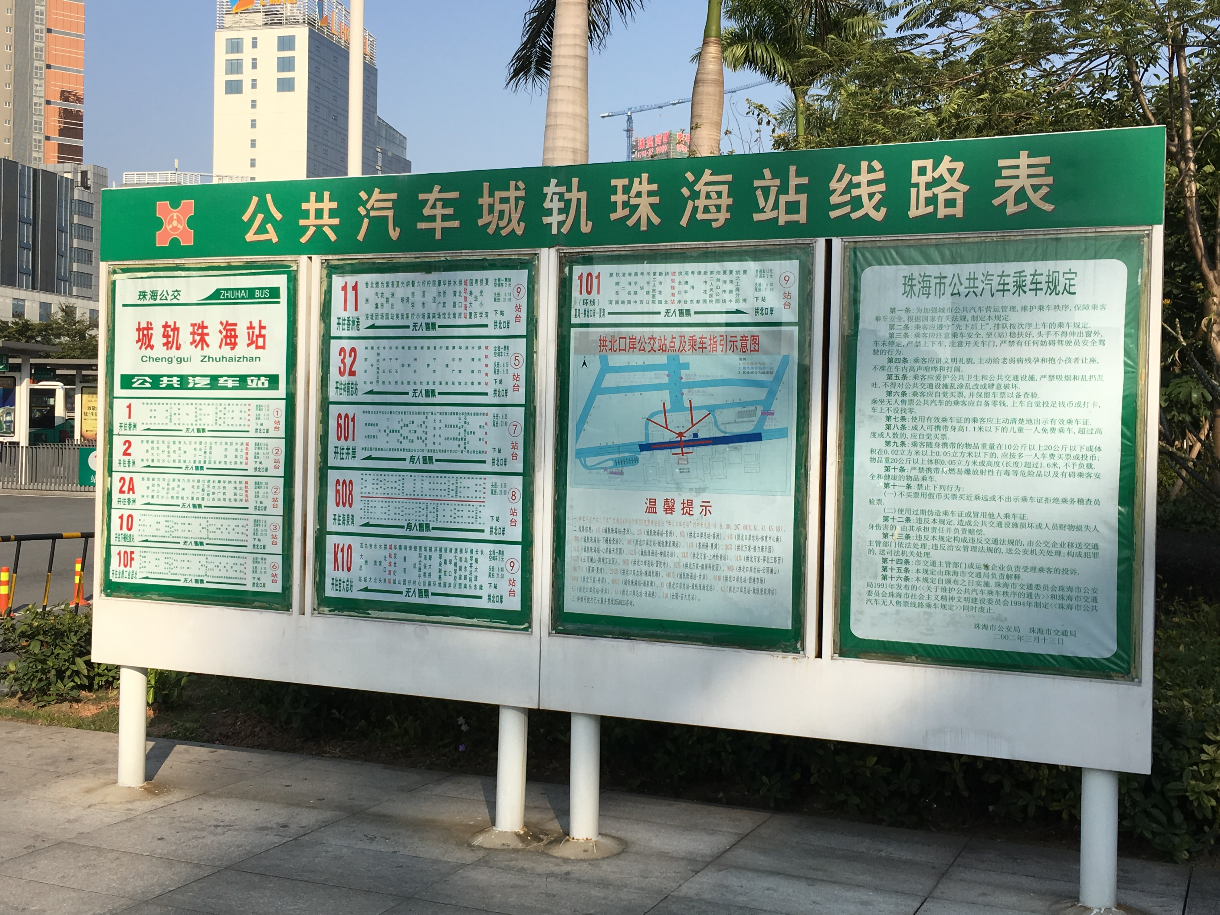 Bus stop signs in 广珠城际轨道交通车站 珠海站, Zhuhai Station, Zhuhai, Guangdong, Hong Kong